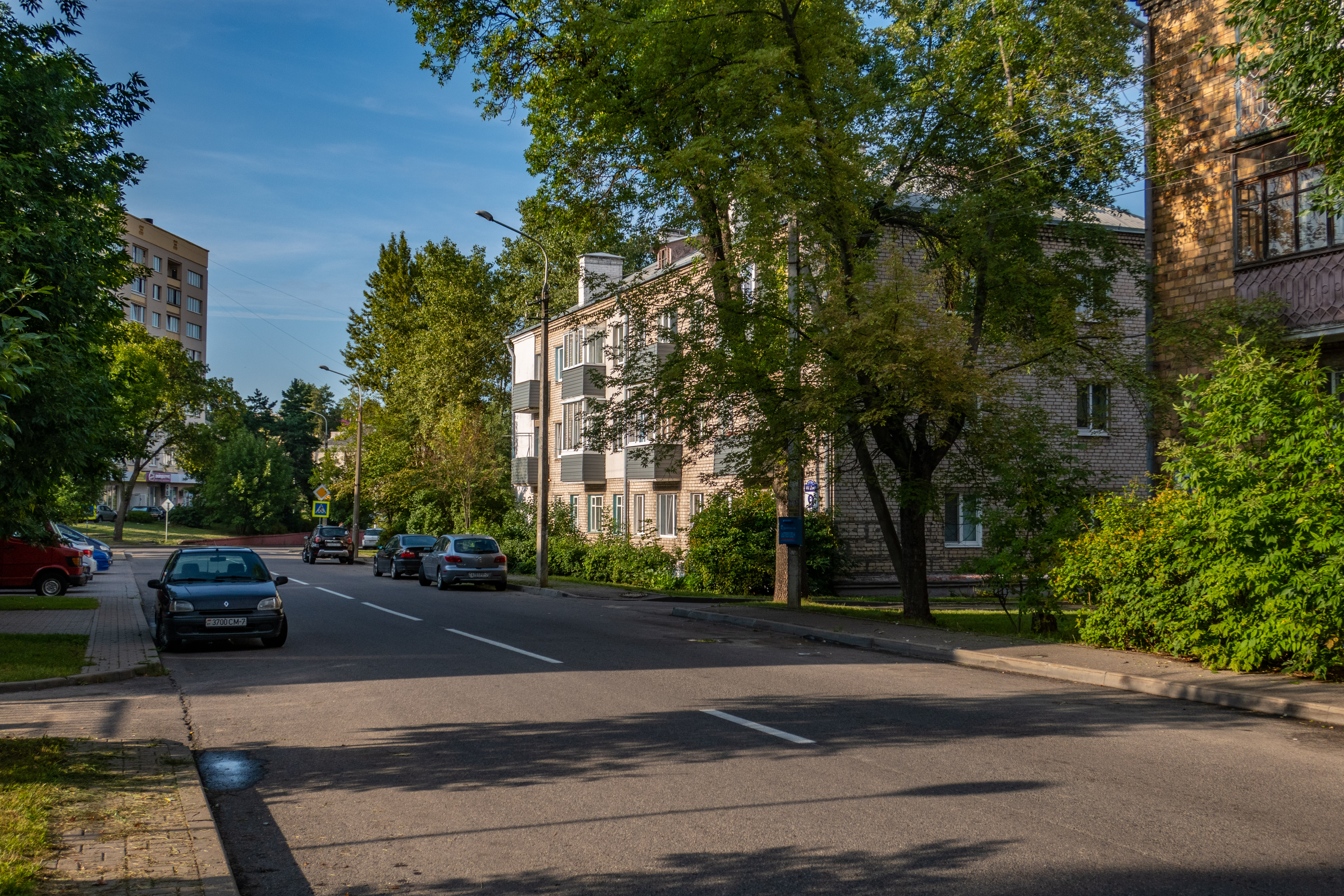 Šasejnaja street. Minsk, Belarus